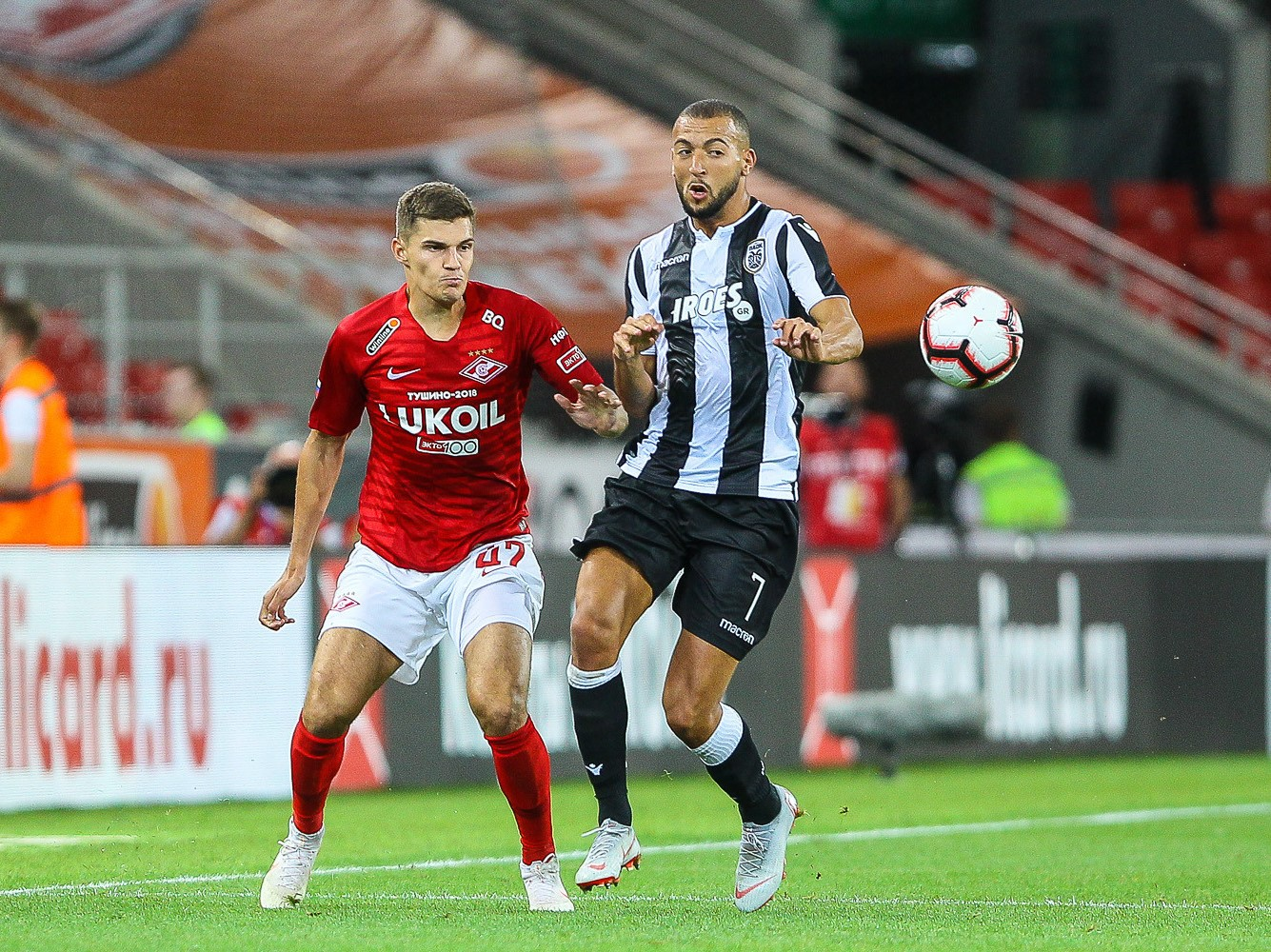 Spartak Moscow VS. PAOK 14 august 2018